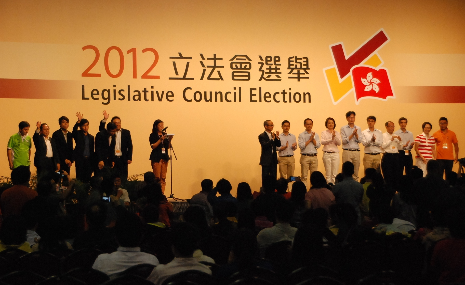 Hong_Kong_legislative_election_2012